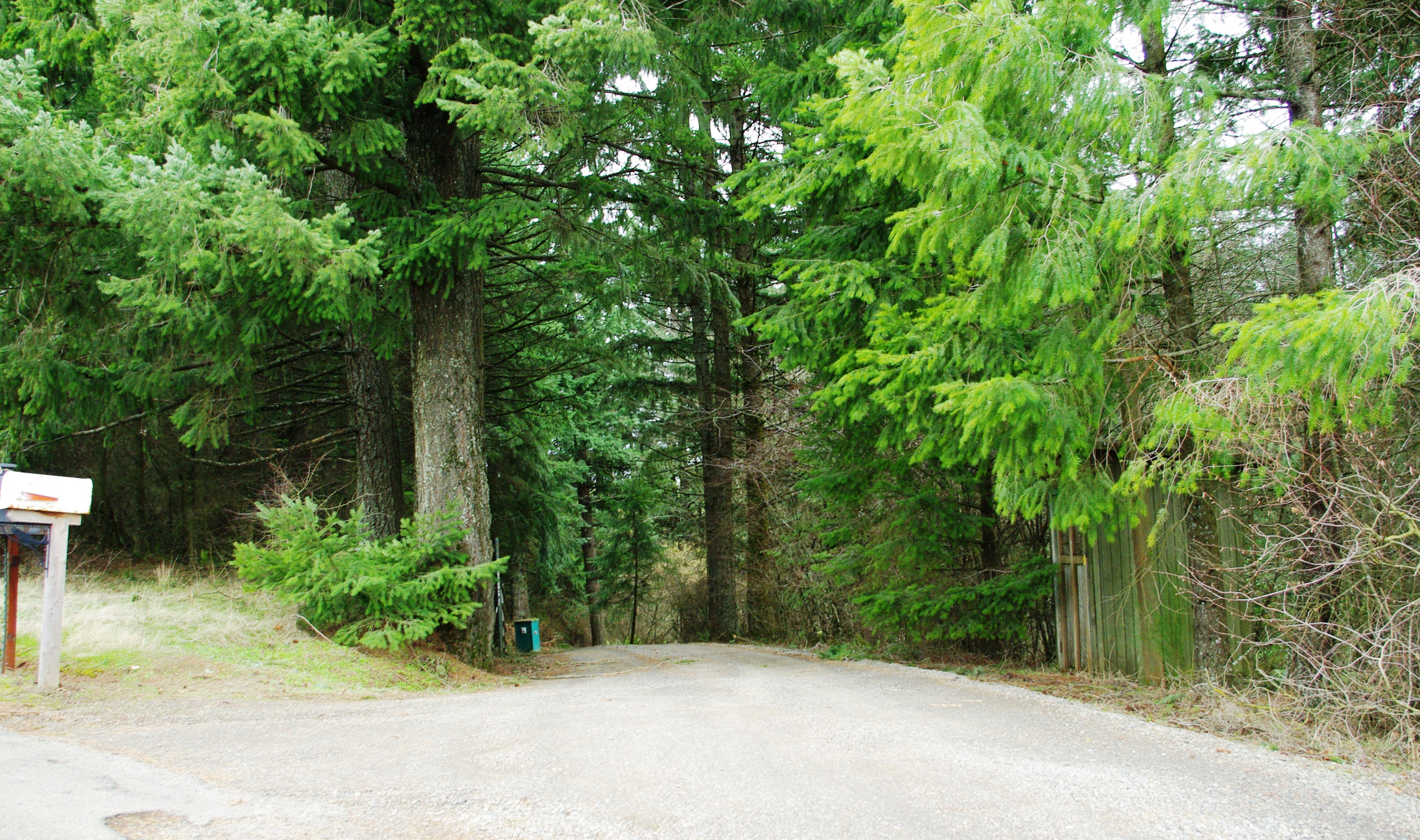 Entrance to Hayden Mountain Airport in Oregon, USA.